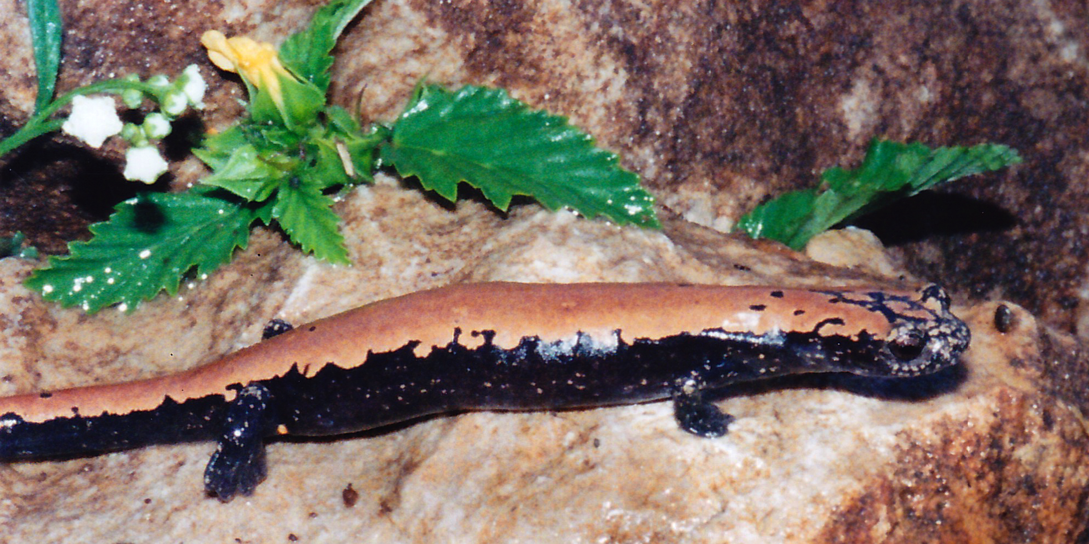 Broadfoot Mushroomtongue Salamander (Bolitoglossa platydactyla), Municipality of Ocampo, Tamaulipas, Mexico. Photographed on 11 July 2005 by William L. Farr. This image was originally photographed with film and later scanned from a print.